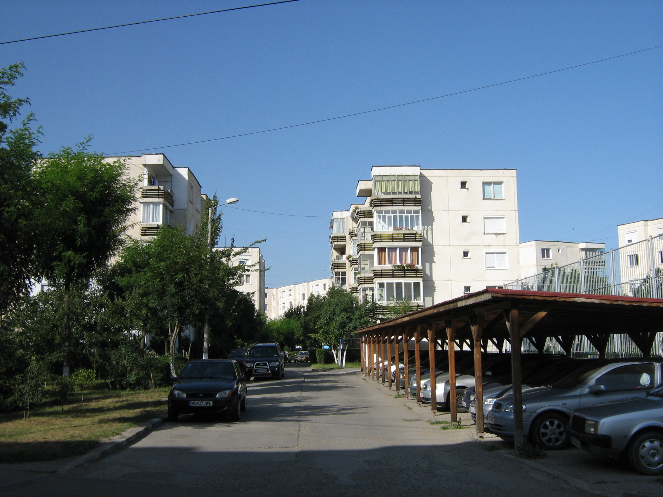 Unirii quarter in Targu Mures